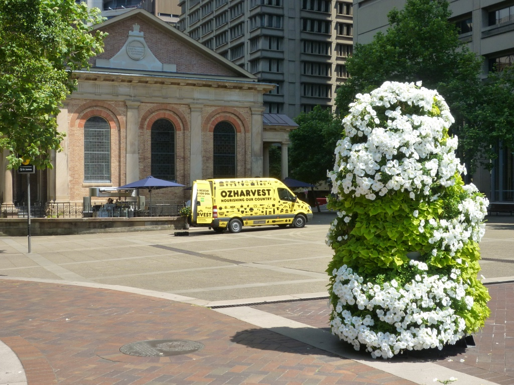 Food delivery from OzHarvest to St James' Church, Sydney to support its Sister Freda mission to disadvantaged people